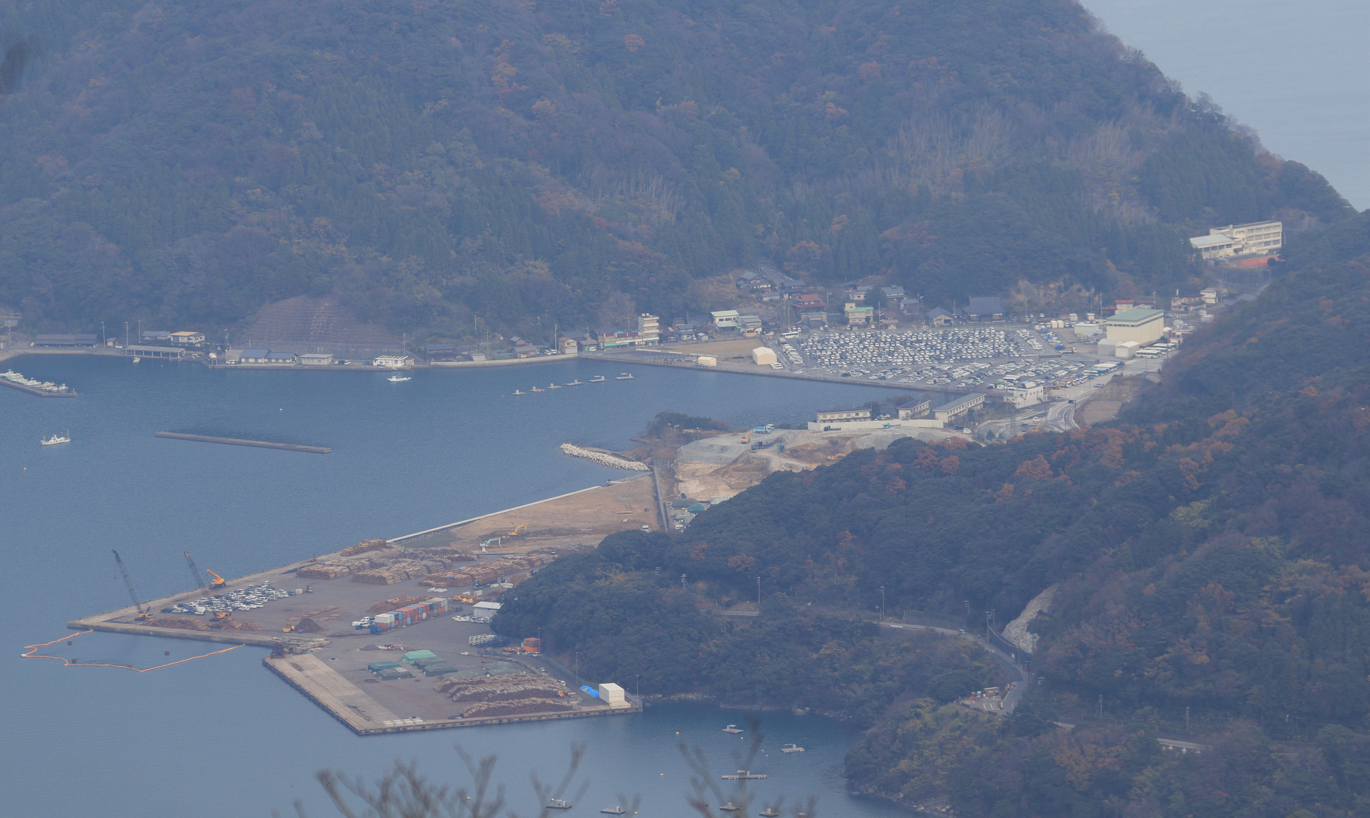 Port of Uchiura seen from Mount Aoba in Takahama, Fukui Prefecture, Japan.